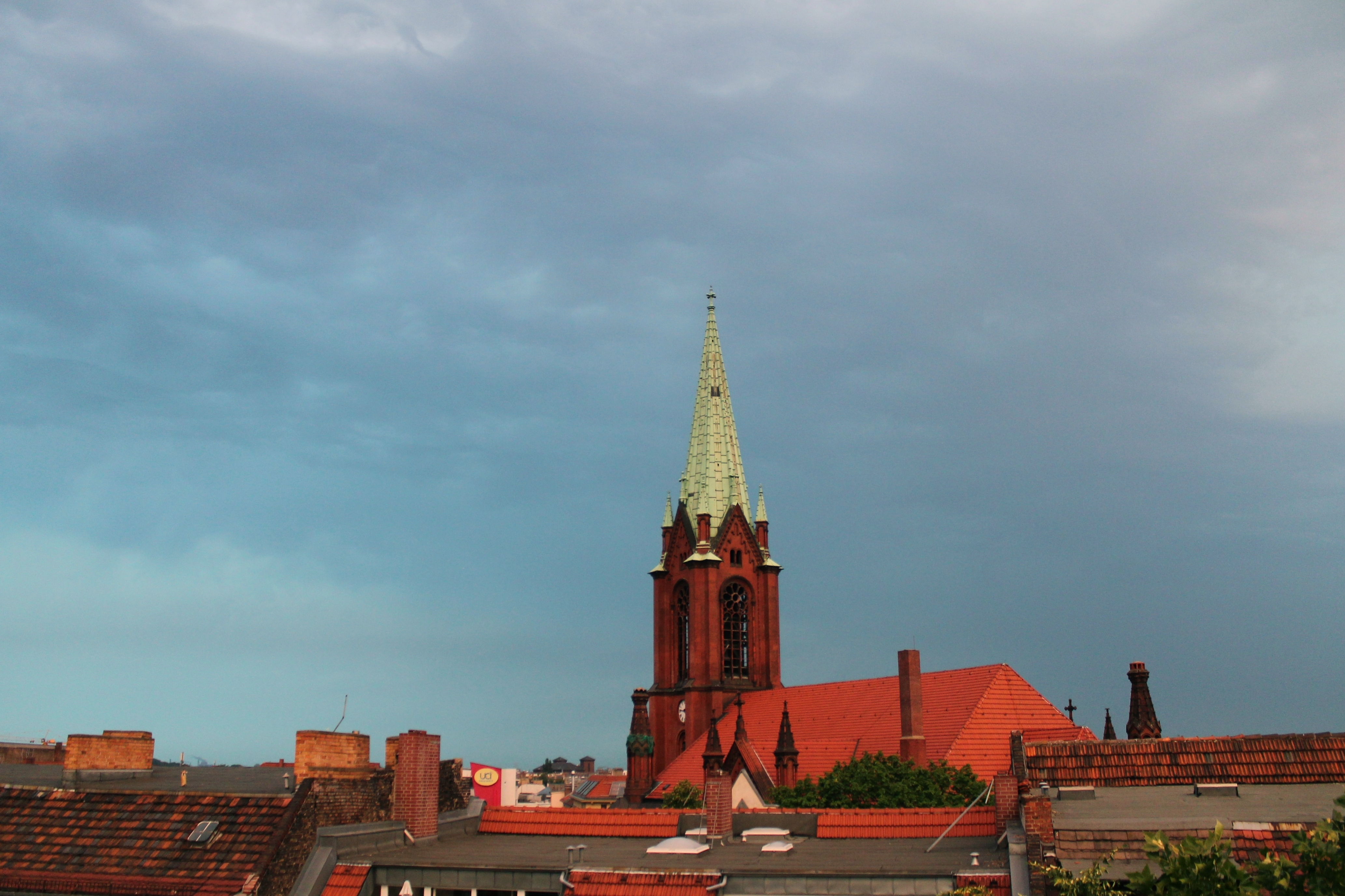 Gethsemanekirche, side view.